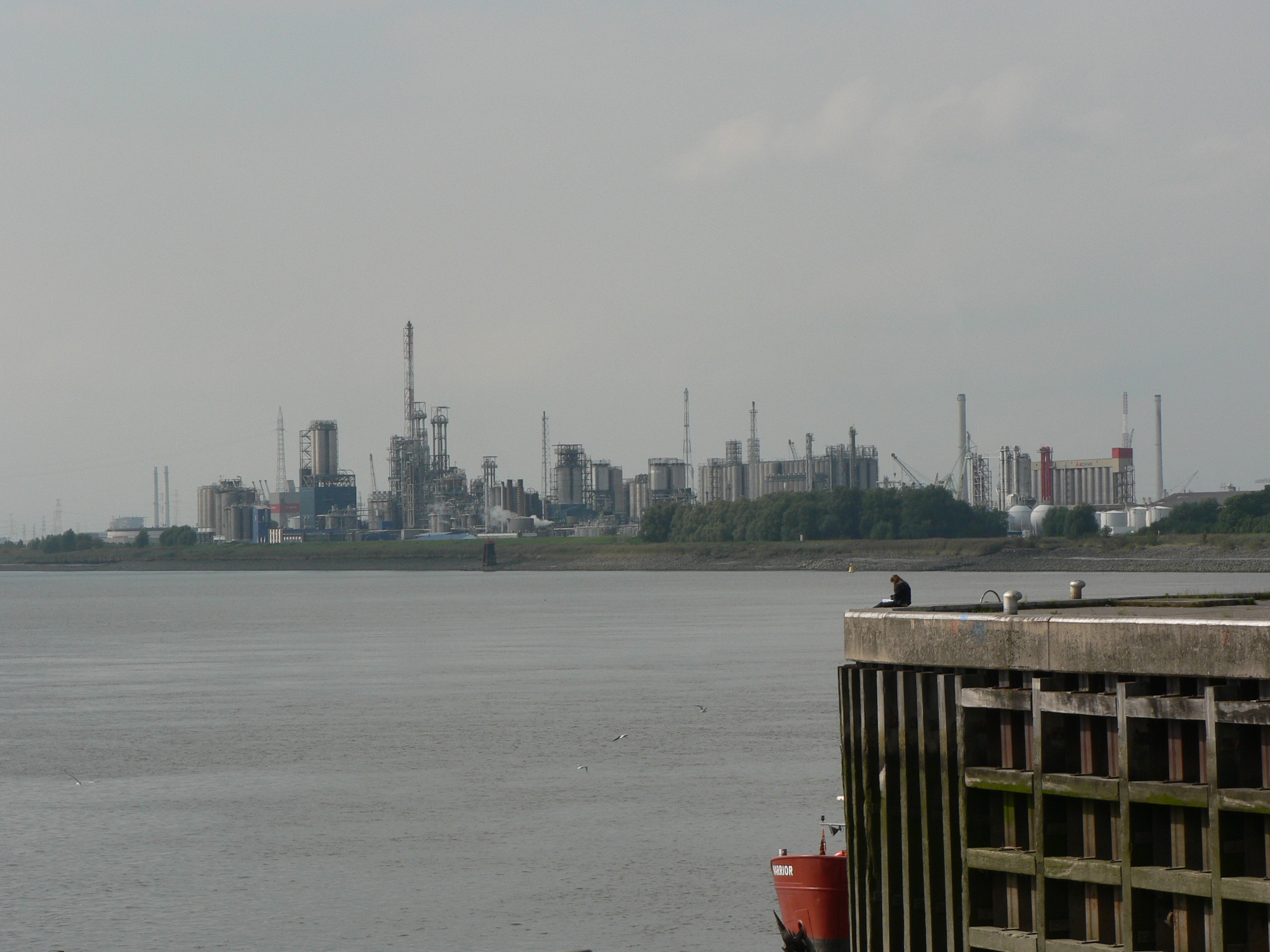 industry in the north of Antwerp